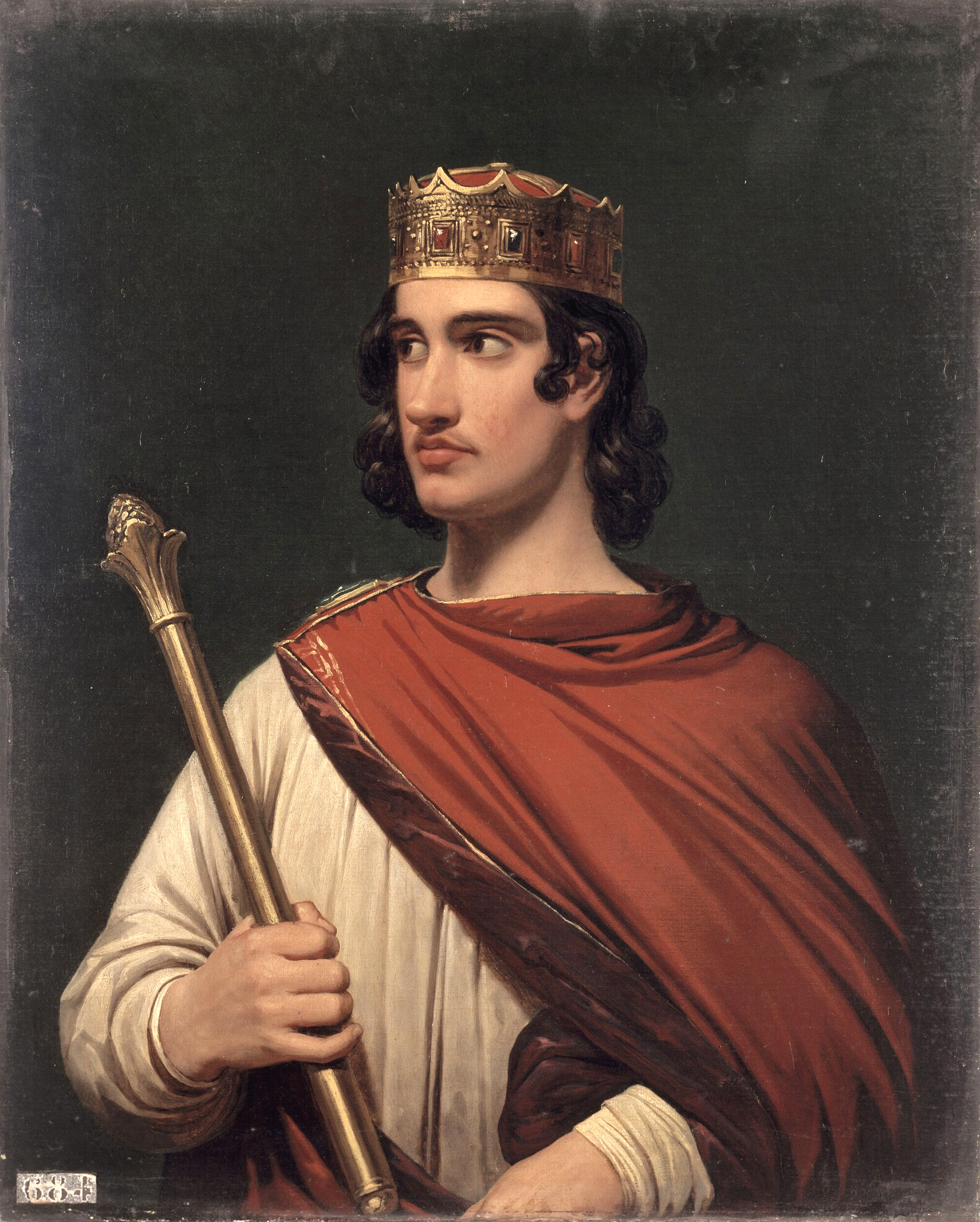 This painting belongs to the Portraits of Kings of France, a series of portraits commissioned between 1837 and 1838 by Louis Philippe I and painted by various artists for the Musée historique de Versailles.